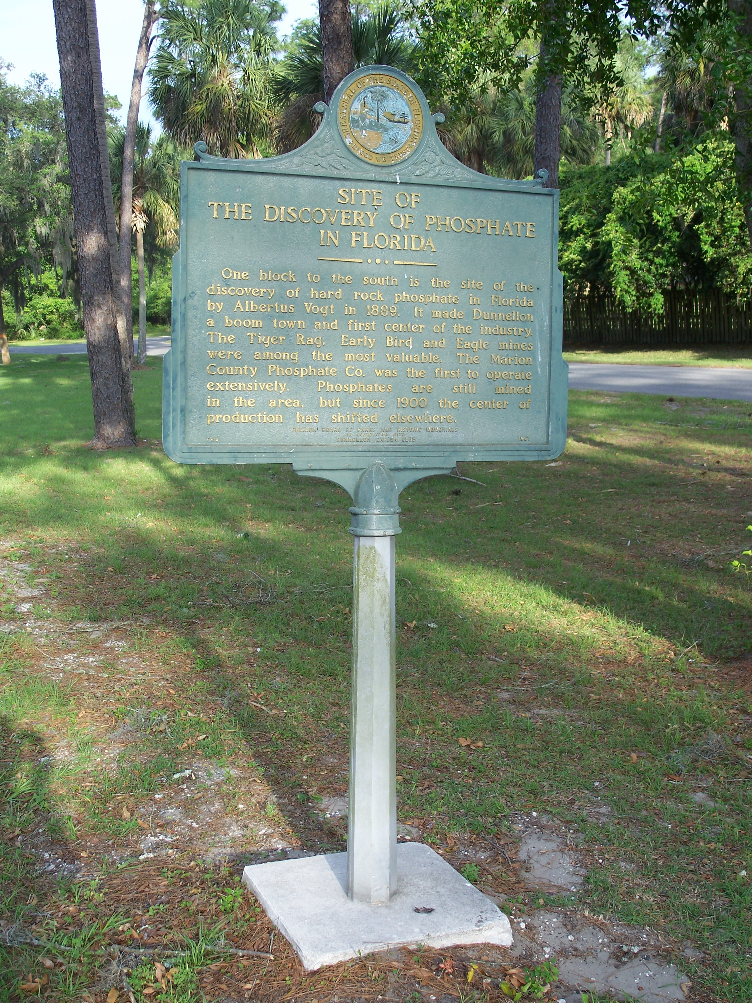 Historic marker in Dunnellon, Florida, indicating site of the discovery of phosphate in Florida.